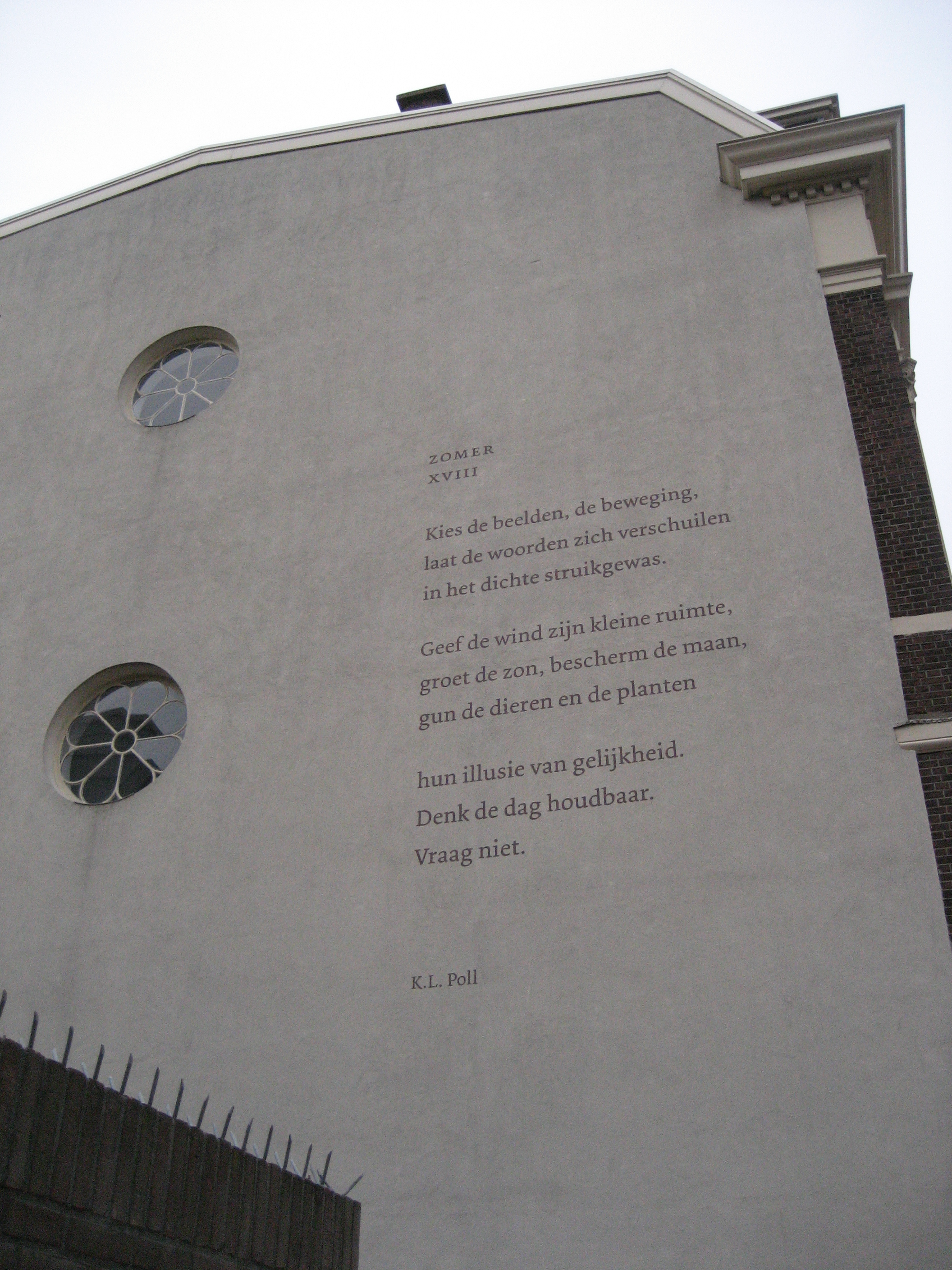 Wall Poem 'Zomer XVIII' by K.L. Poll, Patijnstraat 1928, The Hague (NL). Letter: Dolly; typography by Studio Underware